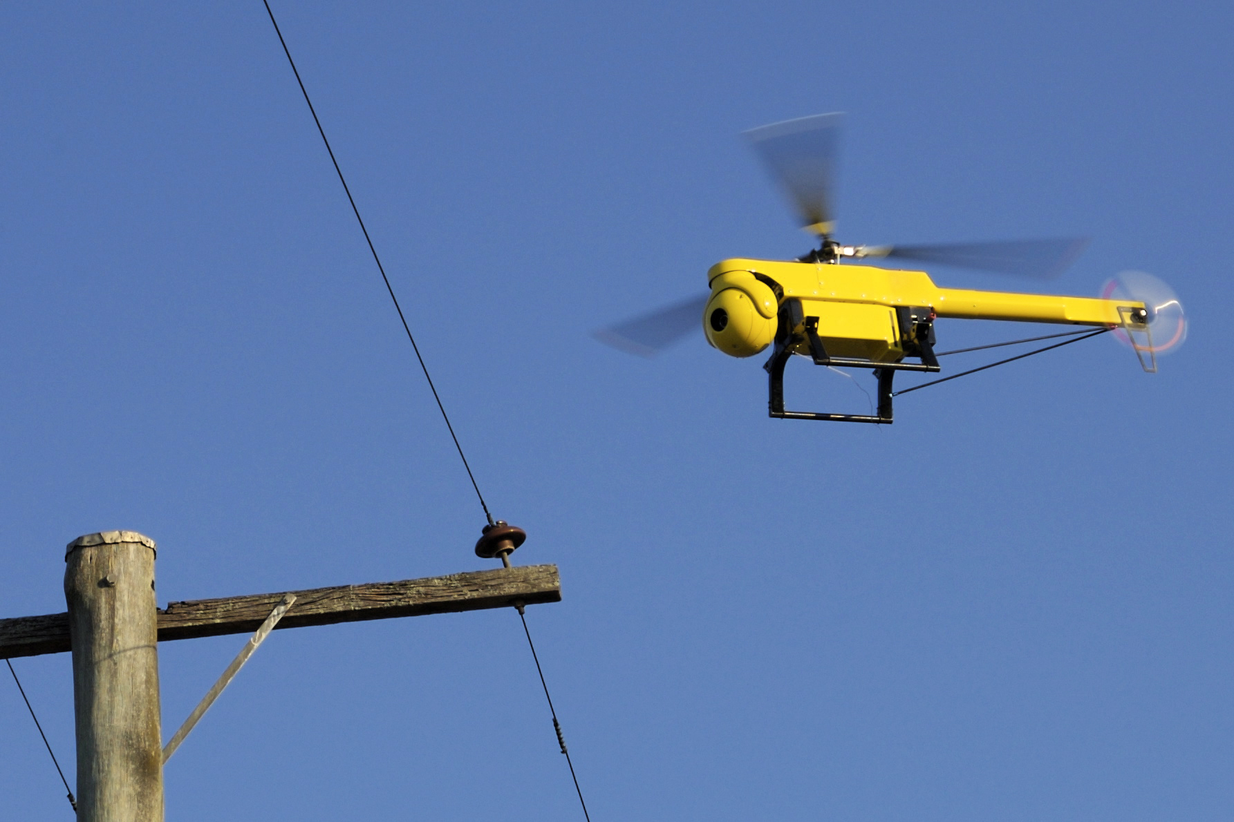 Unmanned aerial vehicles (UAVs) offer a cost-effective way of inspecting powerlines, bridges, buildings, and cooling towers. CSIRO researchers are developing technology that will allow UAVs to safely and reliably perform such tasks with only minimal guidance from a ground-based operator. This UAV research is part of the Smart Skies project, which will develop and demonstrate automated separation management technologies that allow greater use of the National Airspace System by manned and unmanned aircraft through the integration of information and communication technologies. The CSIRO Information and Communication Technologies (ICT) component of the Smart Skies project will allow UAVs to safely fly close to structures such as powerlines, bridges, buildings and cooling towers and transit through controlled airspace.